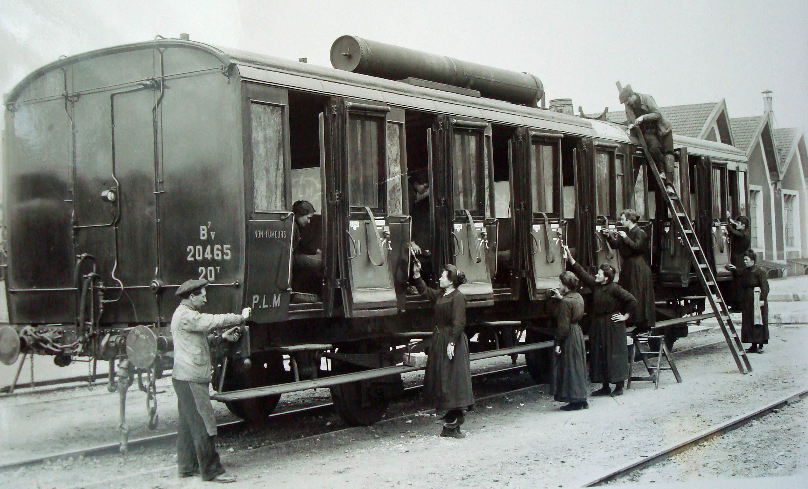 PLM B7v 3 axles coach. Collection Roland Sermet